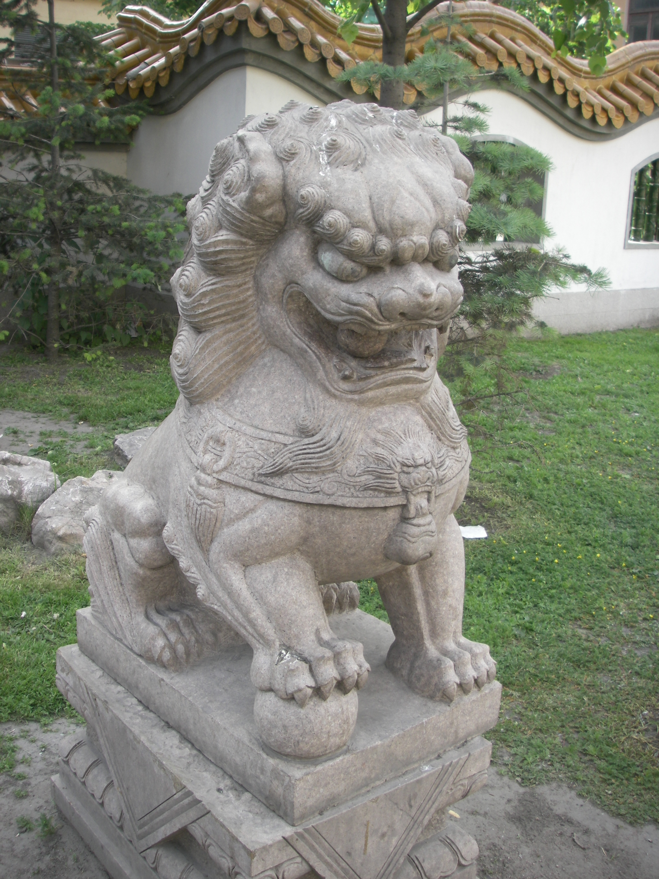 Statue of lion in chinese park in St. Piterstburg